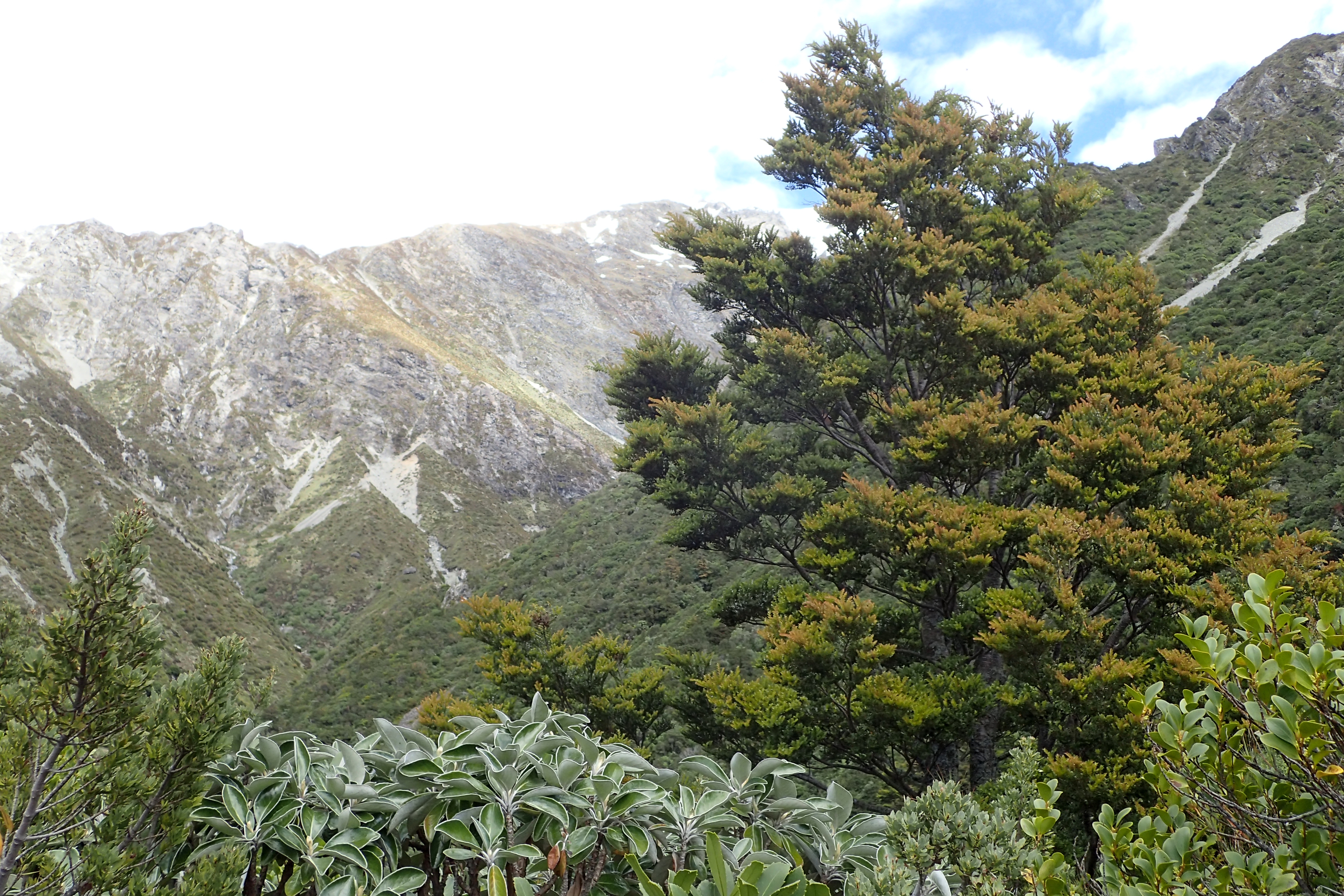 Halocarpus bidwillii near Aoraki Mt Cook Village, Canterbury, New Zealand